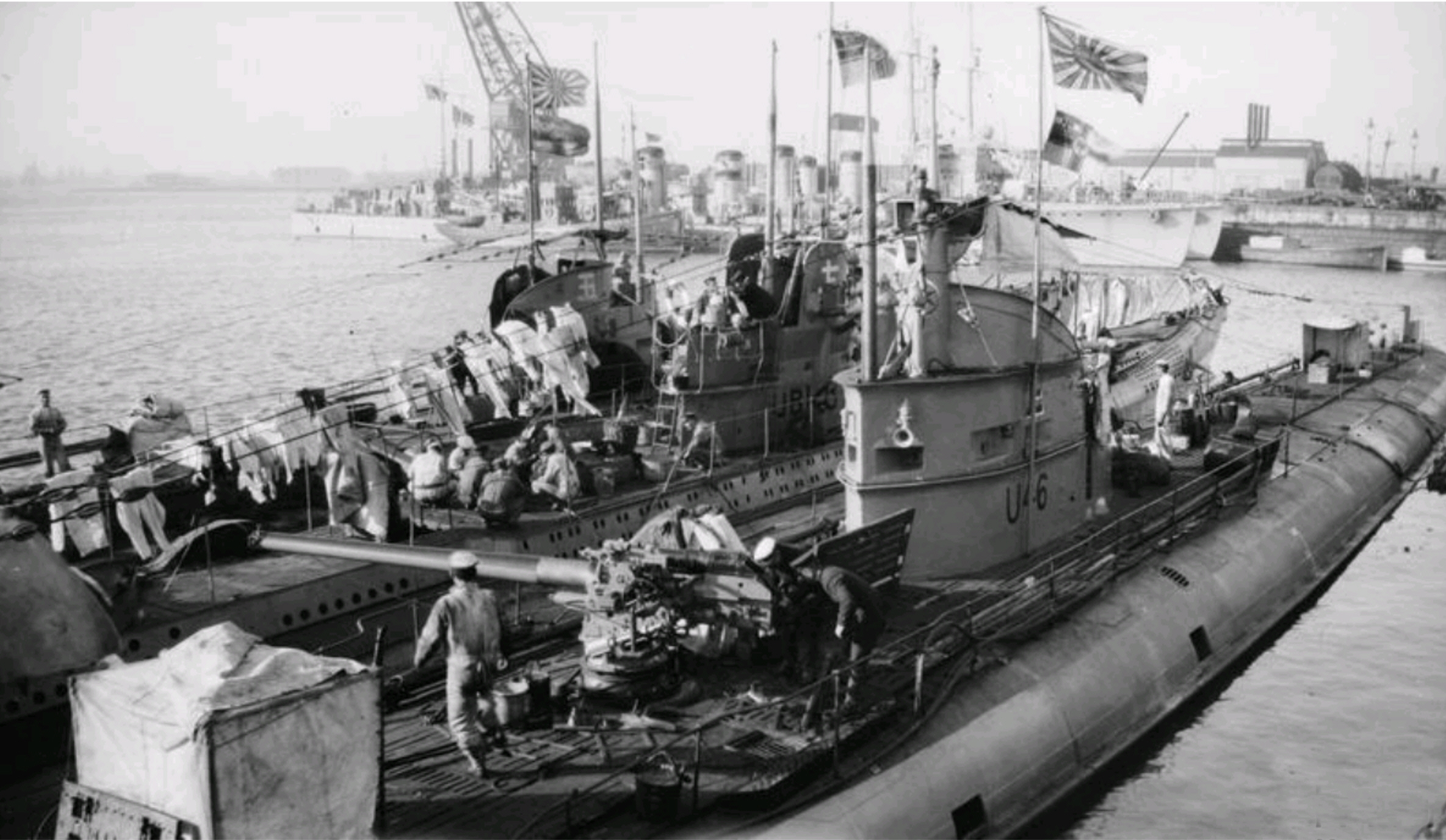 Surrender of U-Boats at Harwich: German U-boats (U-46 on right) at Portsmouth flying the Japanese naval ensign over German colours. Take-over by the Japanese Navy as submarine O2